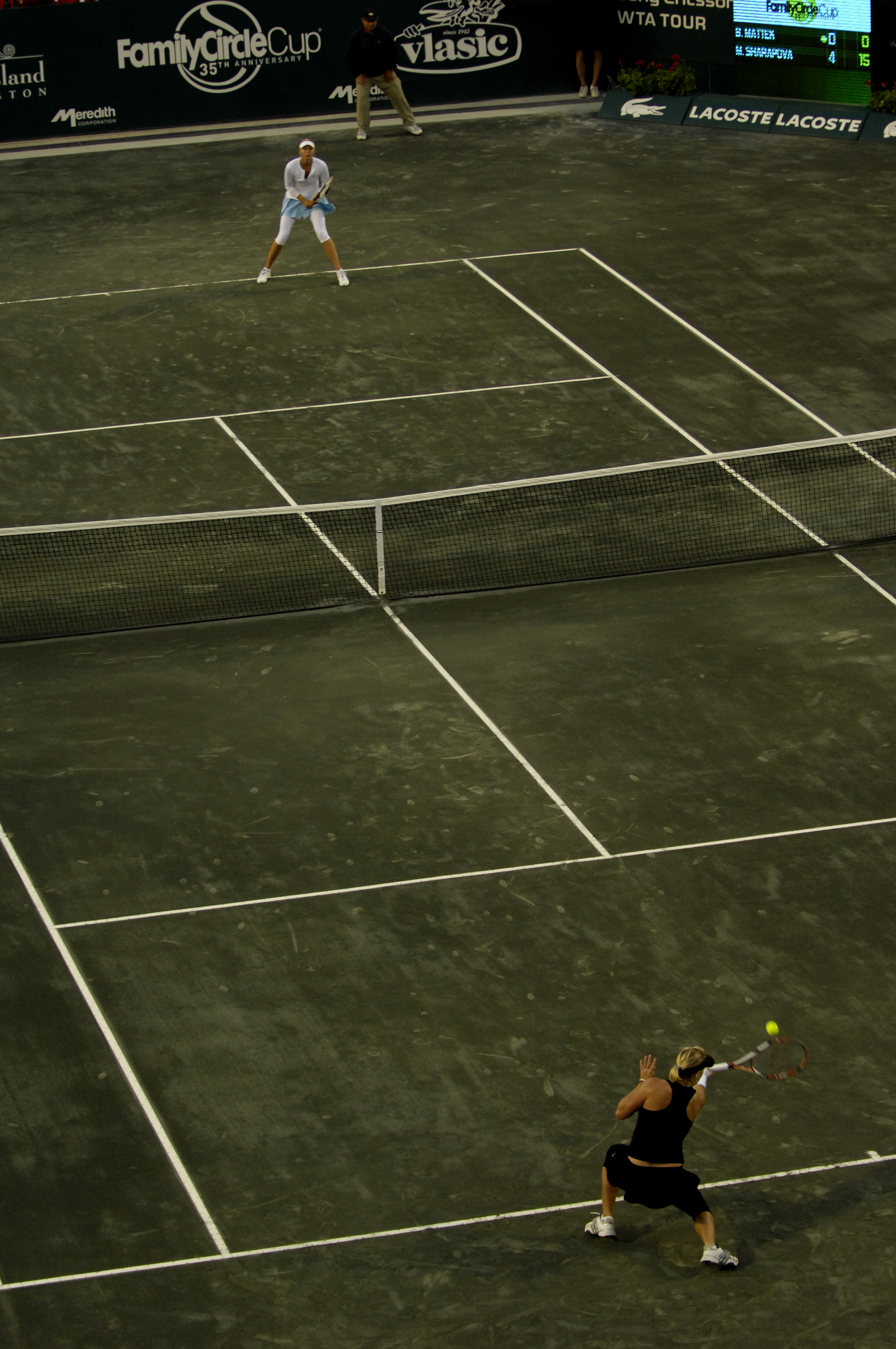 Bethanie Mattek, United States, returns a serve to Maria Sharapova, Russia, during a second round match at the Women Tennis Association, Family Circle Cup 2008 Tennis Match, at the Family Circle Tennis Center in Charleston, S.C., April 16, 2008. Sharapova won the match 6-0 in both the first and second set..